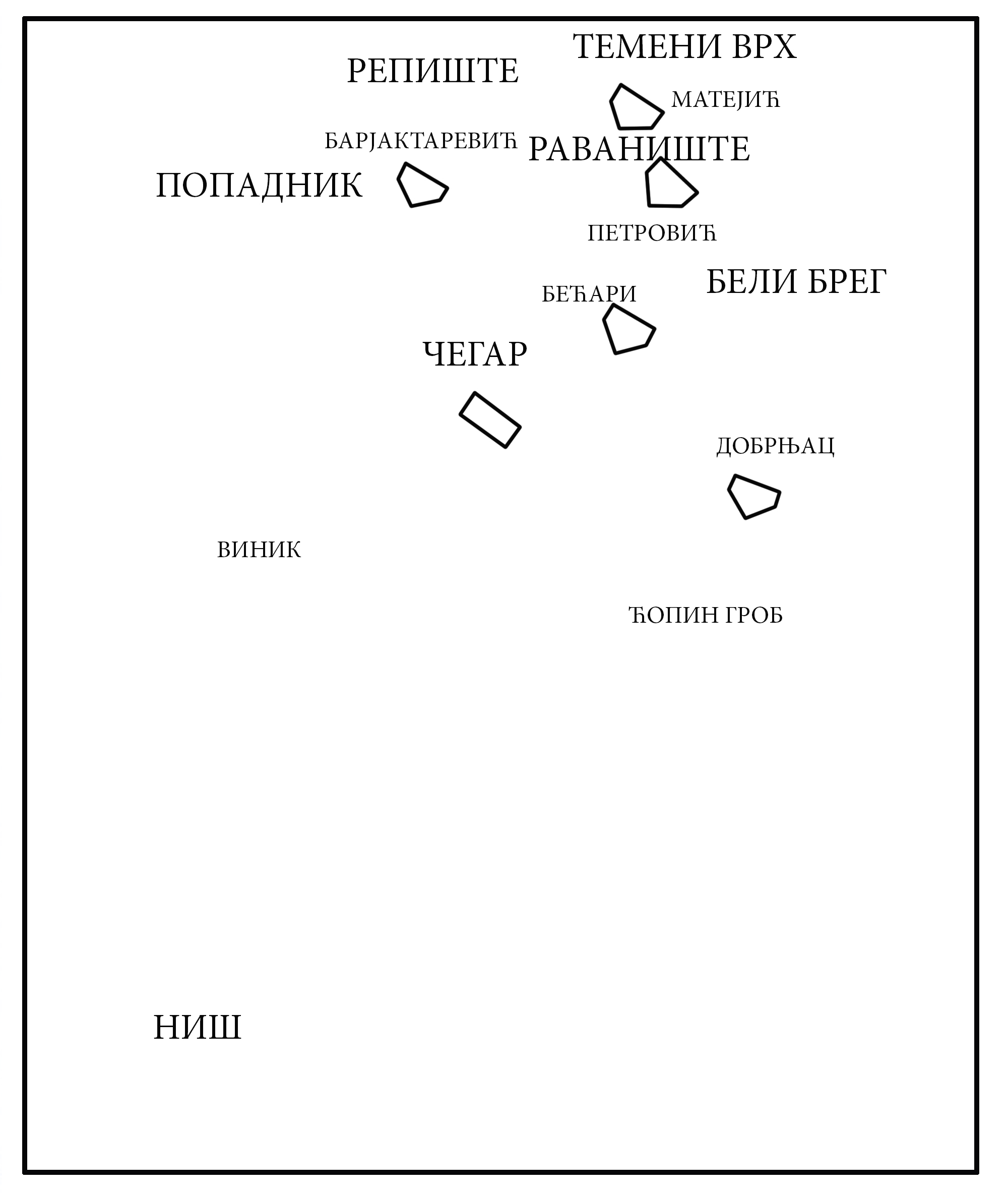 Map od position during battle of Čegar 1809